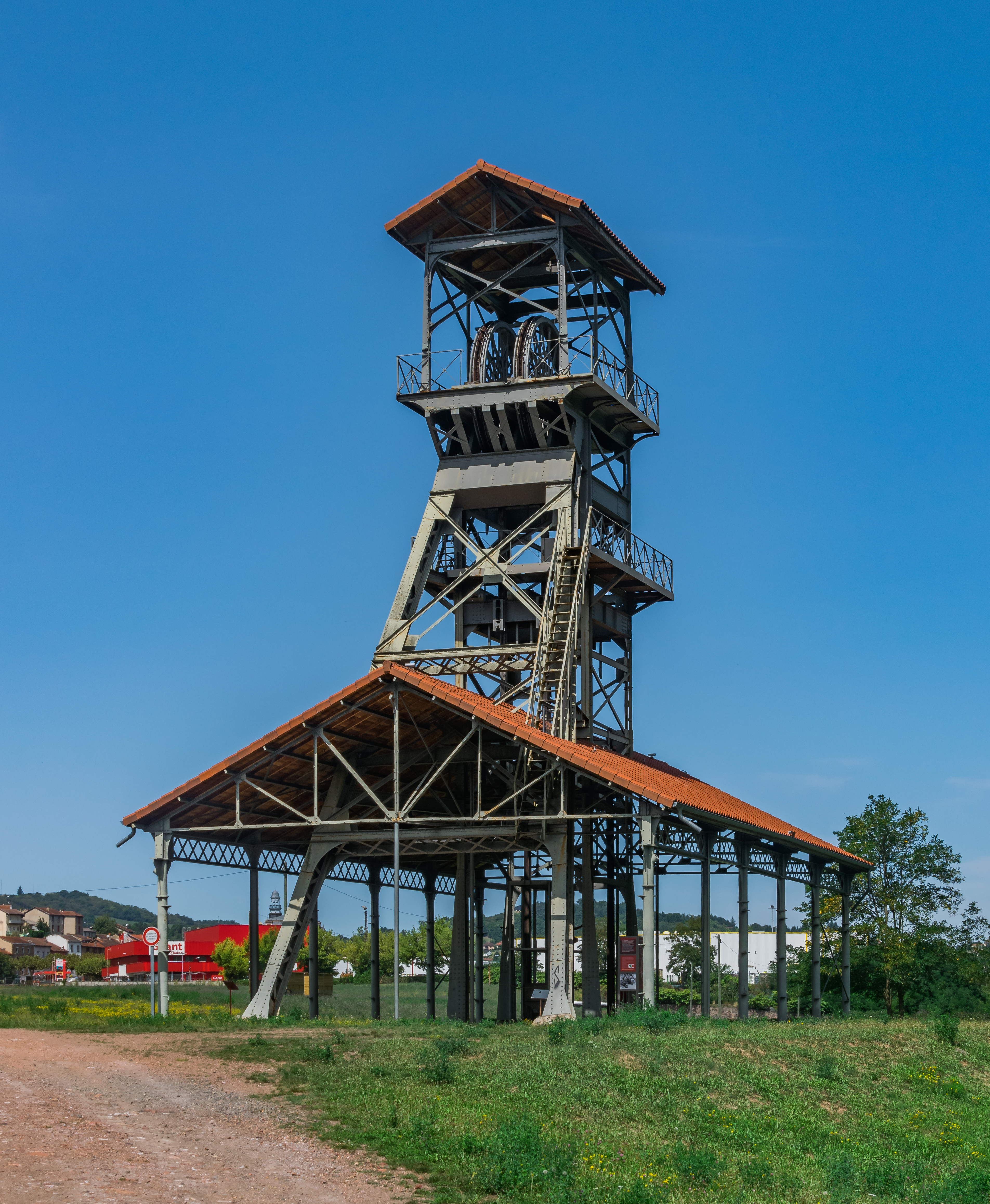 Headframe in former mine La Découverte in Decazeville, Aveyron, France